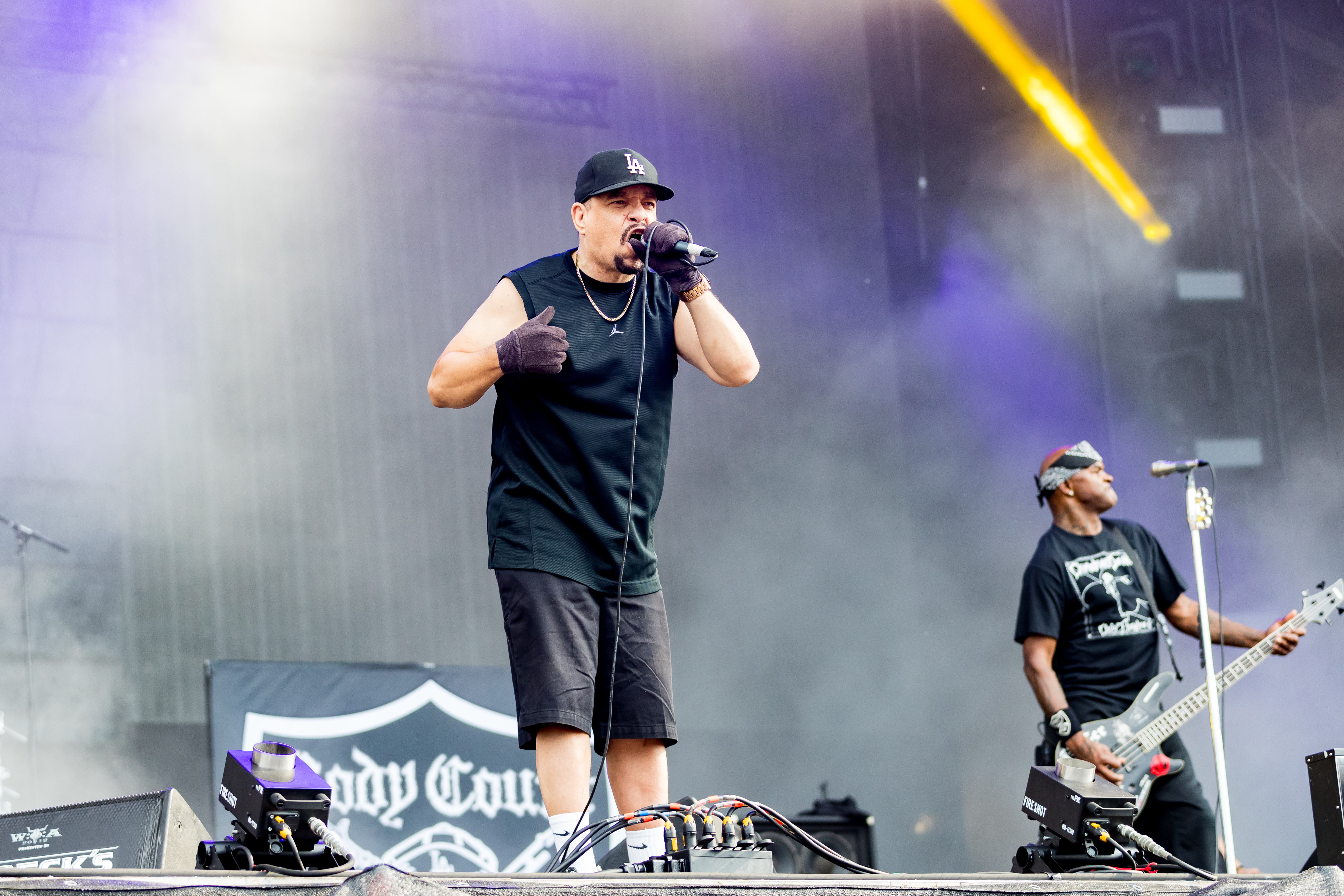 Body Count feat. Ice-T during Wacken Open Air at The Holy Wacken Land, Wacken, Schleswig-Holstein, Germany on 2019-08-02, Photo: Sven Mandel